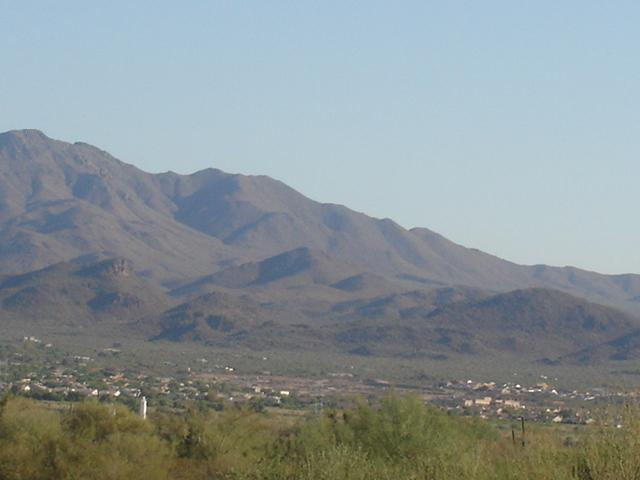 Southern Marana, AZ, and Northern Tucson area.